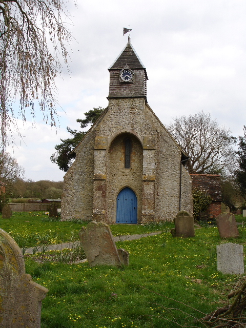 St Peter & St Paul Church Shadoxhurst View looking South East, old Shadoxhurst.